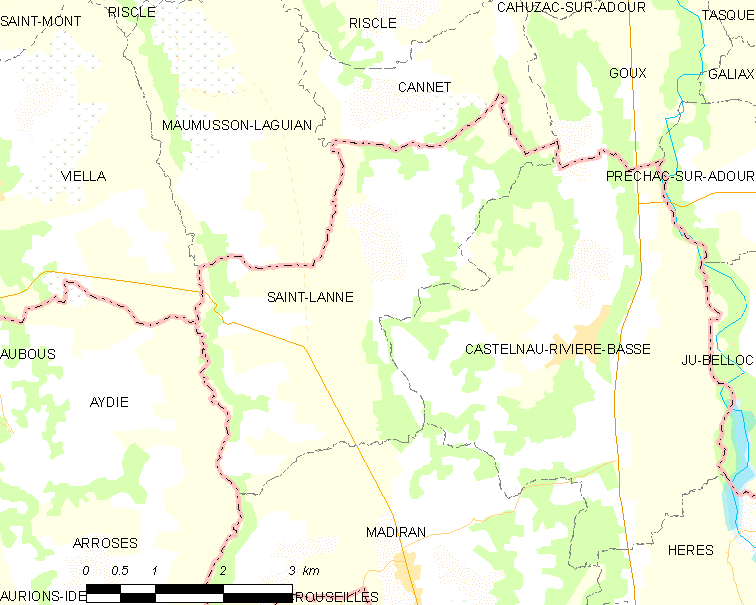 Map of French municipality